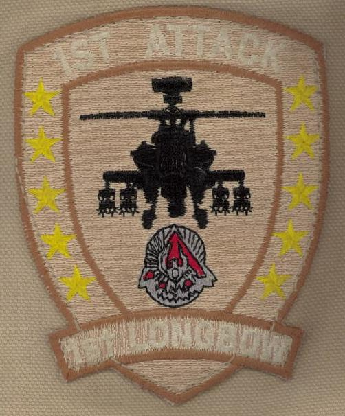 1-227 AV Regt Patch circa 1999